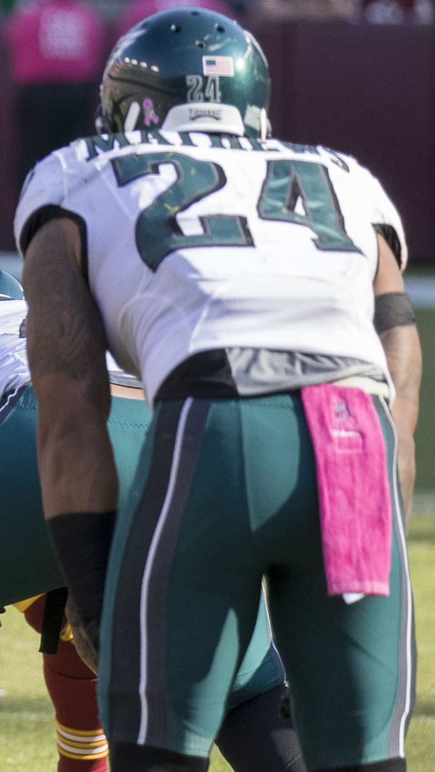 Eagles' Carson Wentz signals to Ryan Mathews